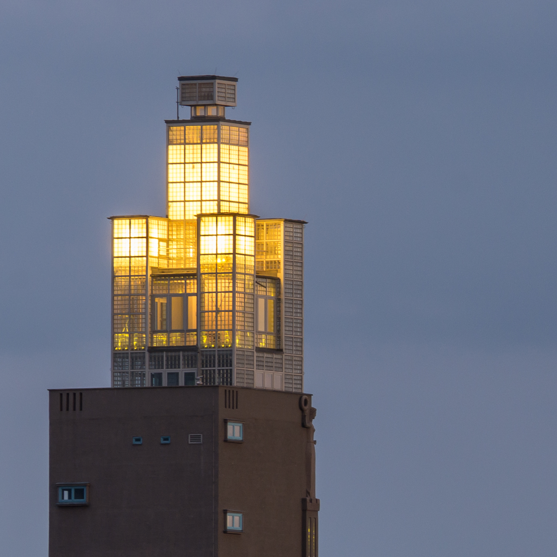 Illuminated top of Albinmüller tower in Magdeburg. This is a photograph of an architectural monument.It is on the list of cultural monuments of Magdeburg